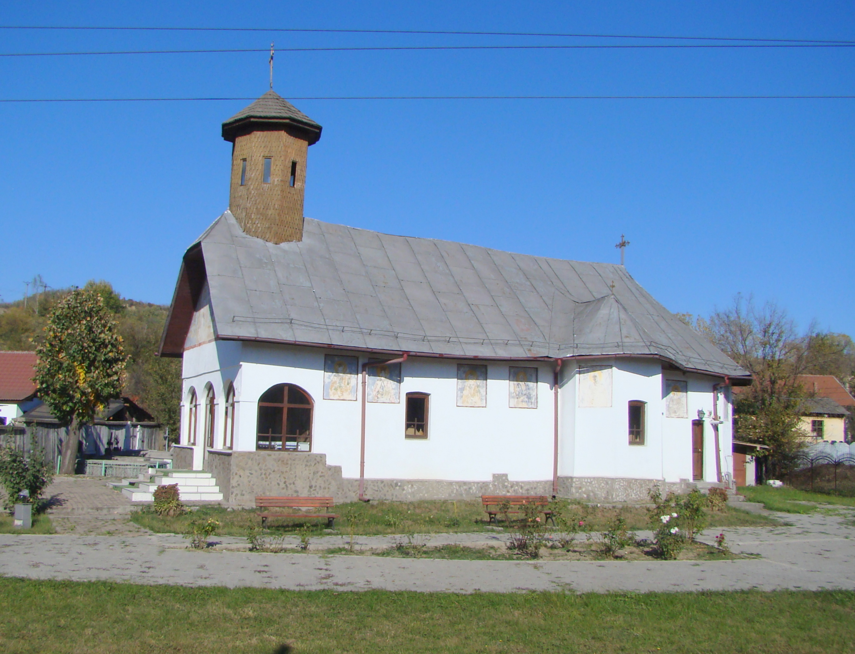 Wooden church in Mătăsari, Gprj county, Romania